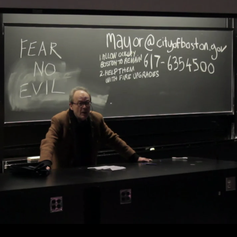 Professor John Womack at a teach-in for Occupy Harvard, discusses democracy, Harvard, the Occupy movement, and more. He advises Harvard students to learn about the people they want to help (suggesting that they look up the murder of Fred Hampton).